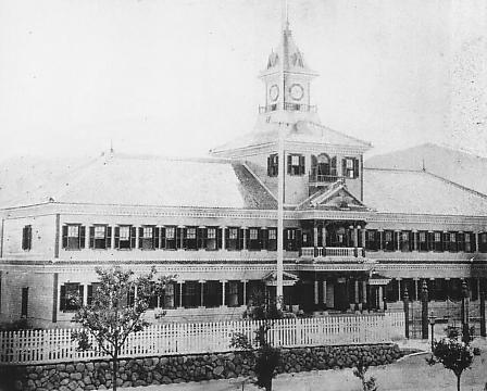 Yamagata Prefectural Normal School